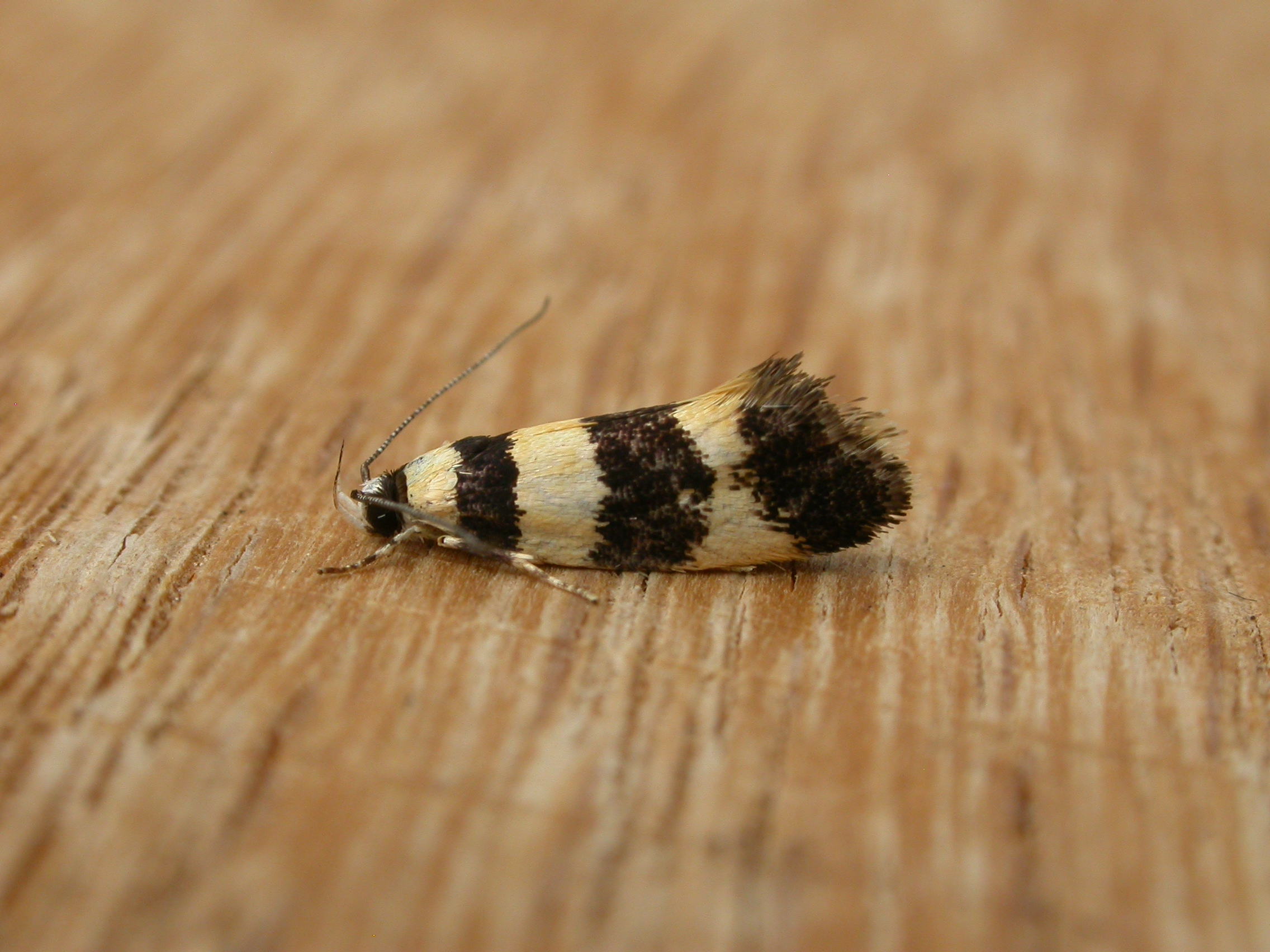 Telecrates melanochrysa (Turner, 1939), to MV light, Aranda, ACT, 26/27 November 2010 Telecrates melanochrysa is very close to or identical with Lichenaula arisema Meyrick, 1890 (Ian McMillan, pers. comm.). See and .